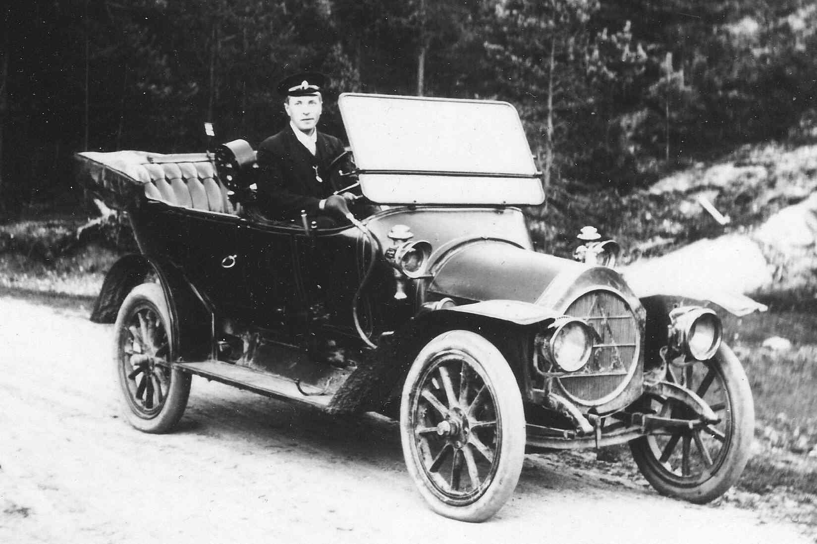 Old taxi from Helsinki